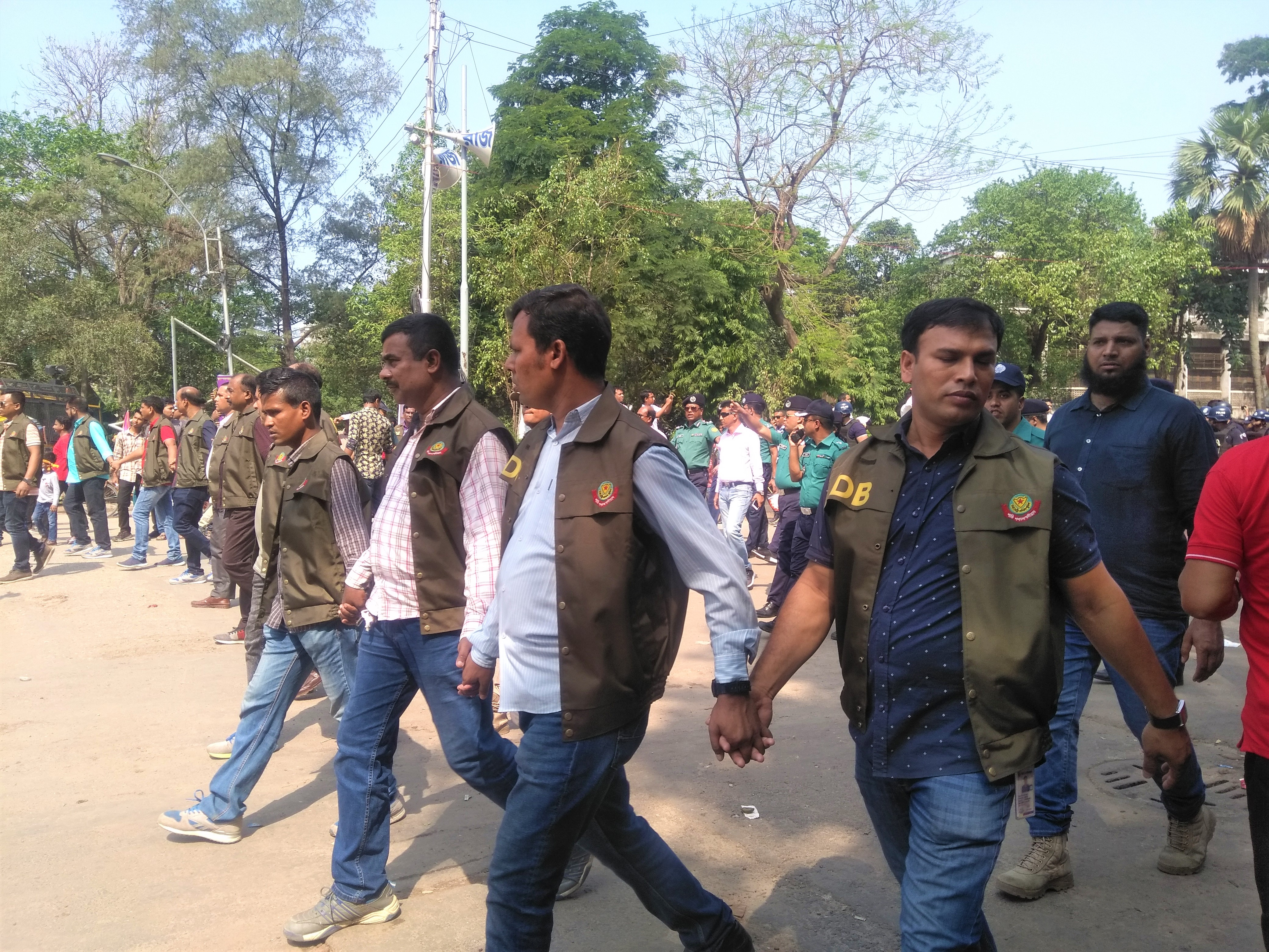 Members of Detective Branch (DB) during Mangal Shobhajatra.